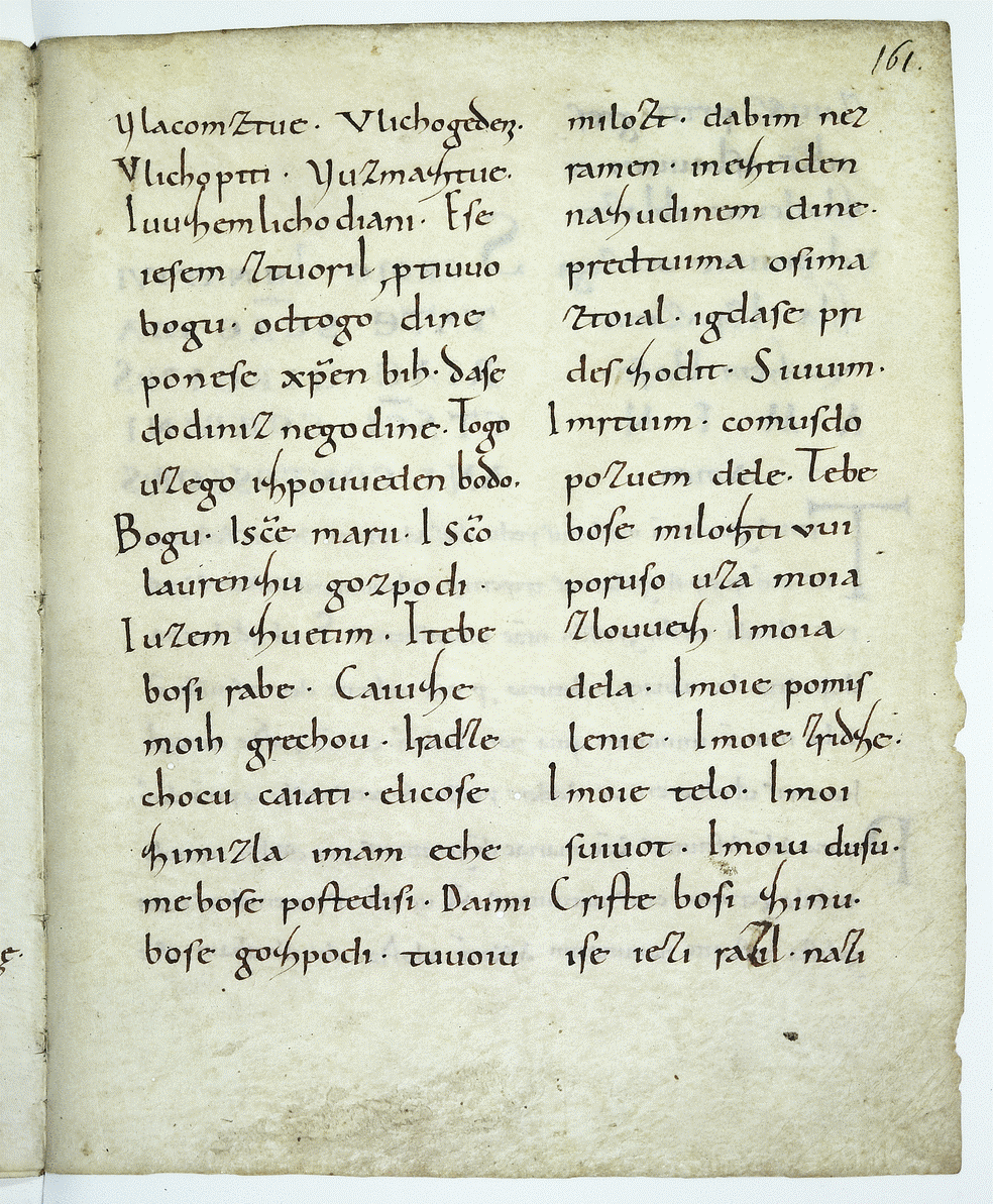 Facsimile of Freising Manuscripts, page 8.